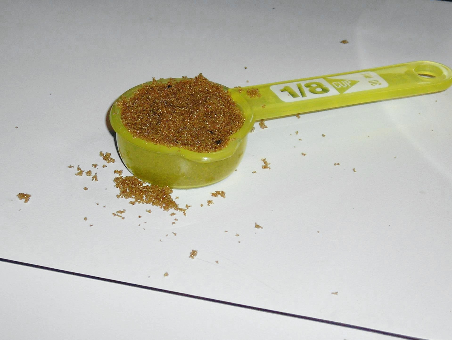 1/8 cup measuring spoon with pouring spout